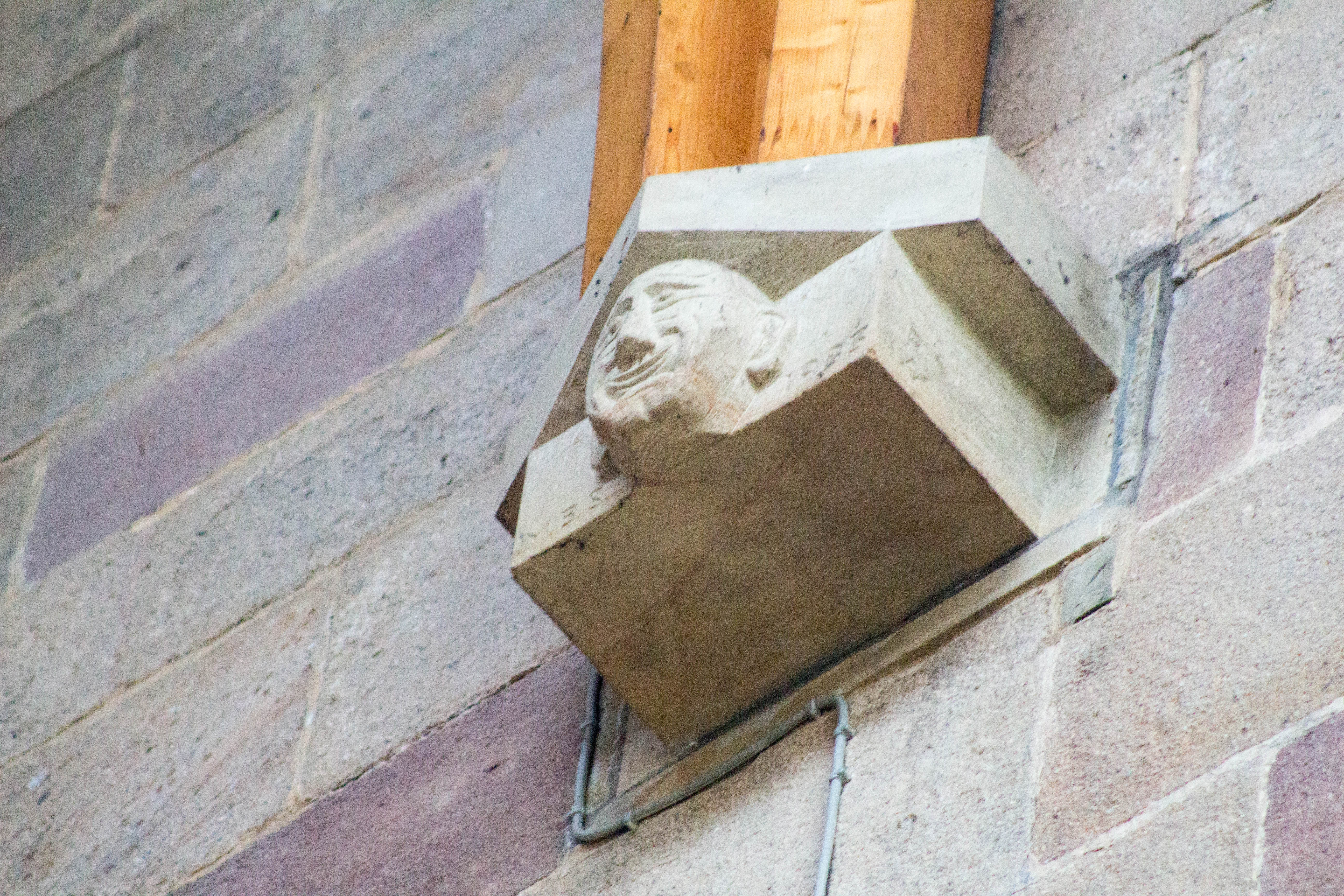 Corbel bearing effigy dedicated to Canon Slaughter who begand the restoration of the church. Situated in the west tower of the Priory Church of St Mary & St Cuthbert, Bolton Abbey